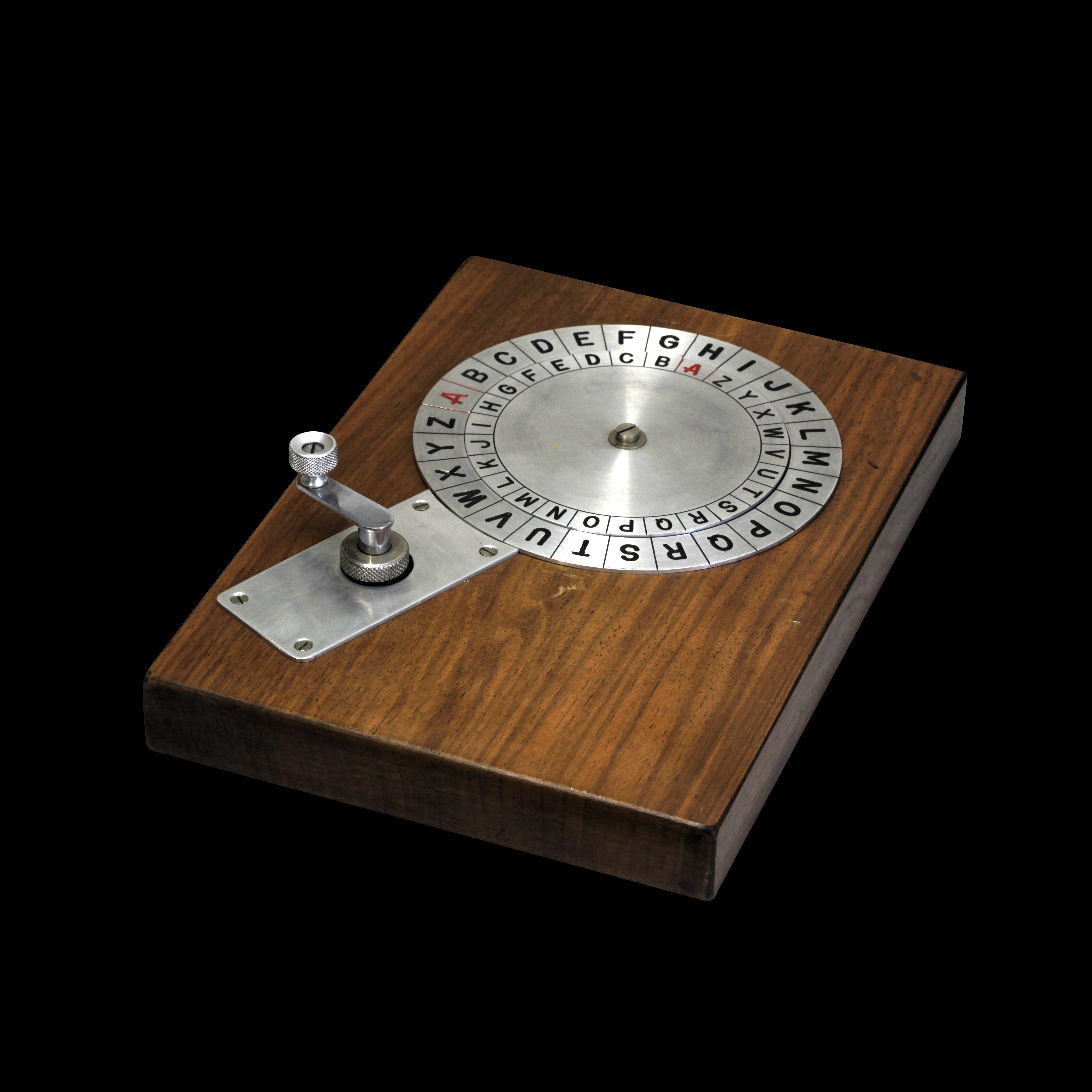 Cypher wheel used for training by the Swiss Army. Cryptography collection of the Swiss Army headquarters The making of this document was supported by Wikimedia CH.(Submit your project!) For all the files concerned, please see the category Supported by Wikimedia CH.